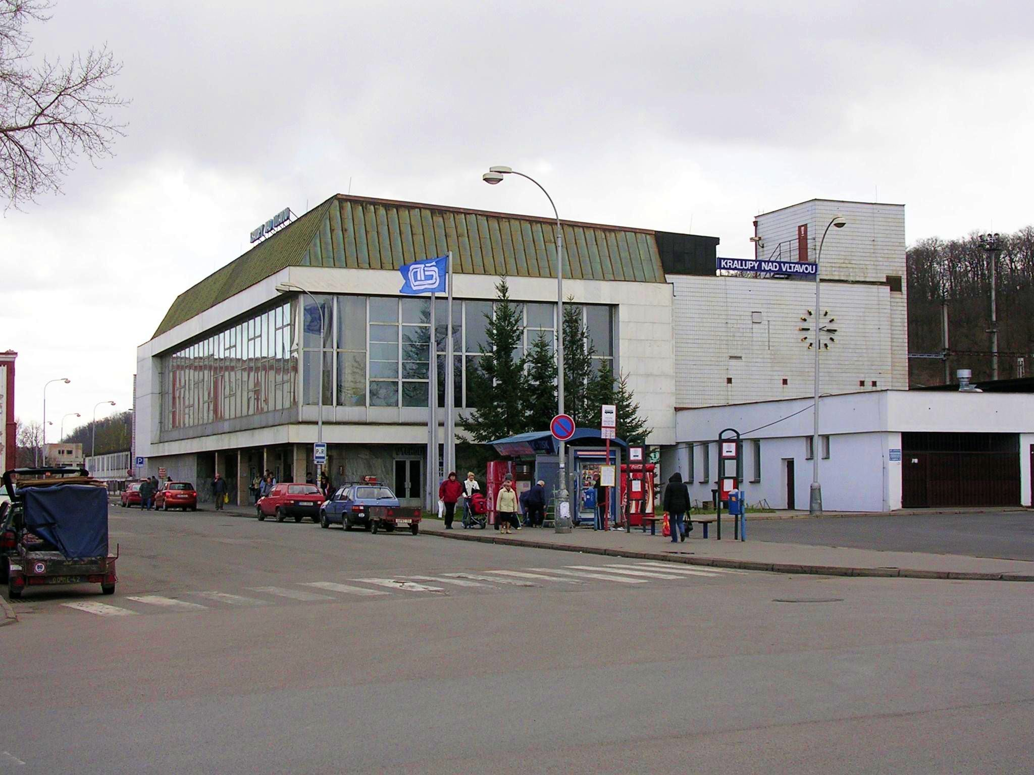 train station Kralupy nad Vltavou, the Czech Republic. - OpenStreetMap(Info)